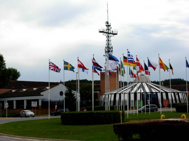 Valles Tecnological Park (Cerdanyola)